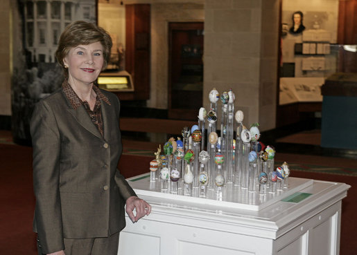 Laura Bush stands next to 51 State Eggs decorated by artists from each state and the District of Columbia, at the White House Visitor Center in Washington, D.C.